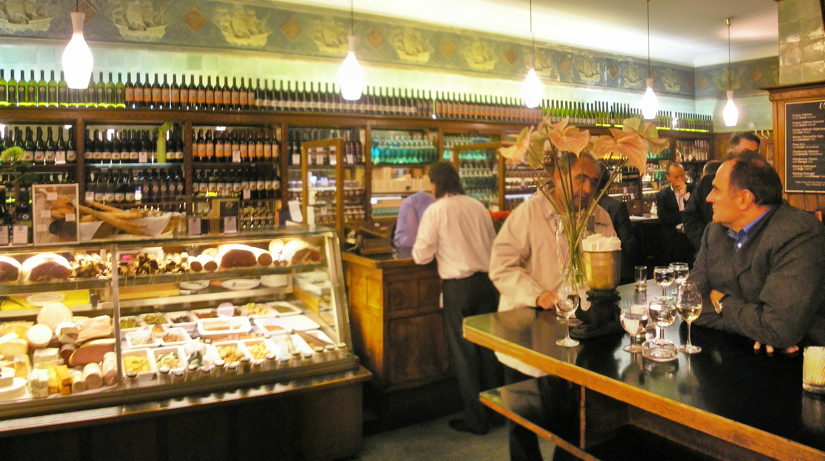 Interior of the old restaurant "Zum Schwarzen Kameel" in Vienna.